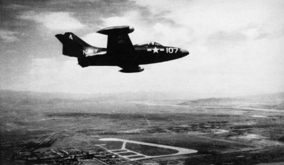 U.S. Navy Lt.JG Jack T. Davis from U.S. Naval Air Reserve Fighter Squadron VF-721 Iron Angels attacks Yonpo air base (K-27), North Korea, with this Grumman F9F-2B Panther. VF-721 was assigned to Carrier Air Group 101 (CVG-101) aboard the aircraft carrier USS Boxer (CV-21) for a deployment to Korea from 2 March to 24 October 1951.